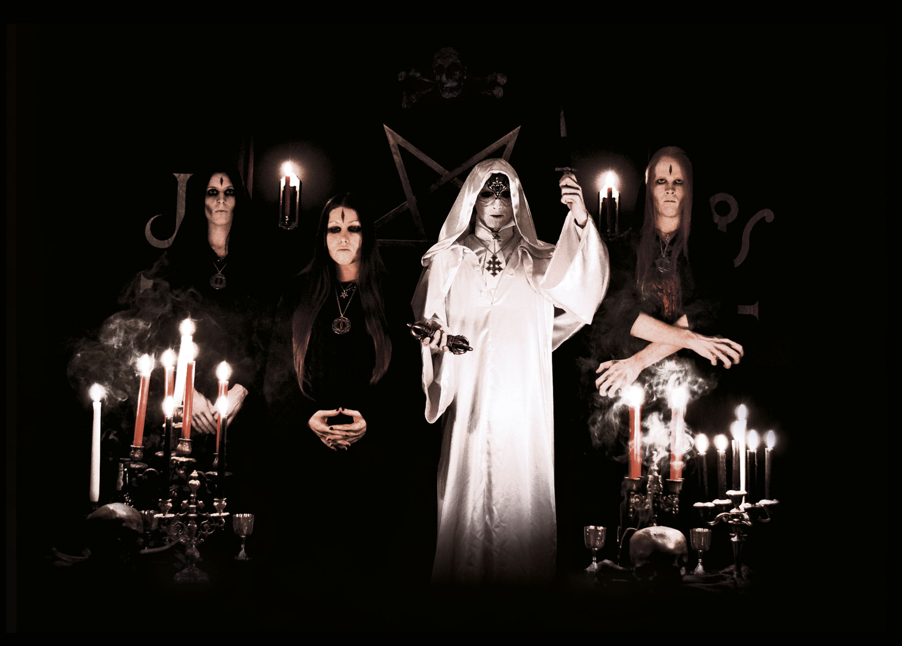 Hetroertzen year 2015. Depicting band members Ham, Åskväder, Frater D. and Anubis.